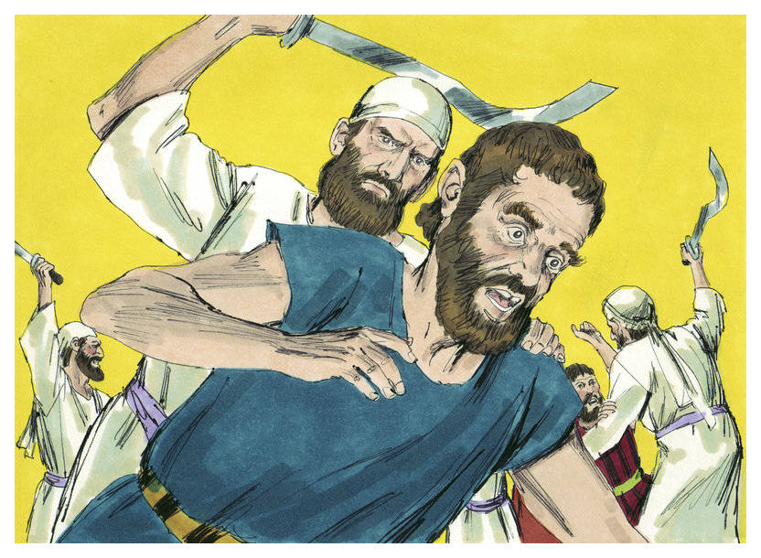 Biblical illustration of Book of Exodus Chapter 33